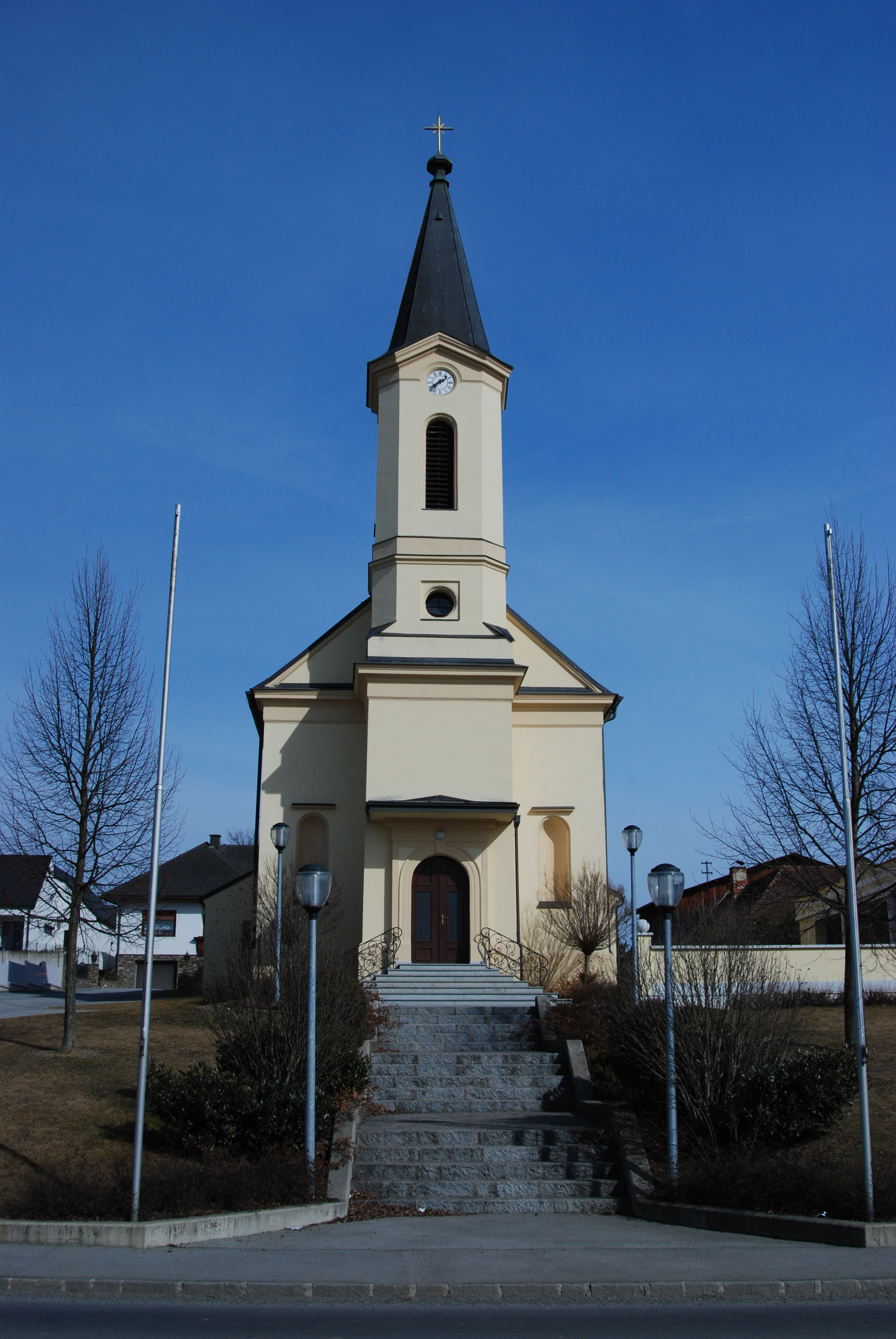 Katholische Pfarrkirche Grafenschachen